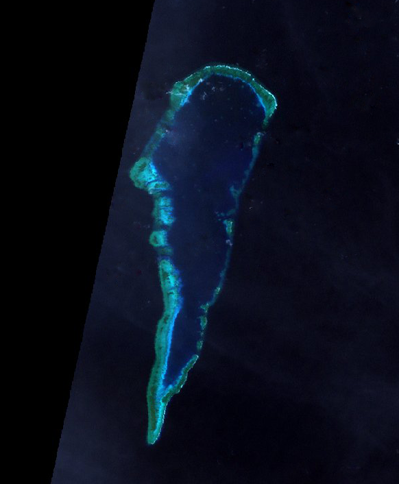 Second Thomas Shoal is an atoll of Spratly Islands.